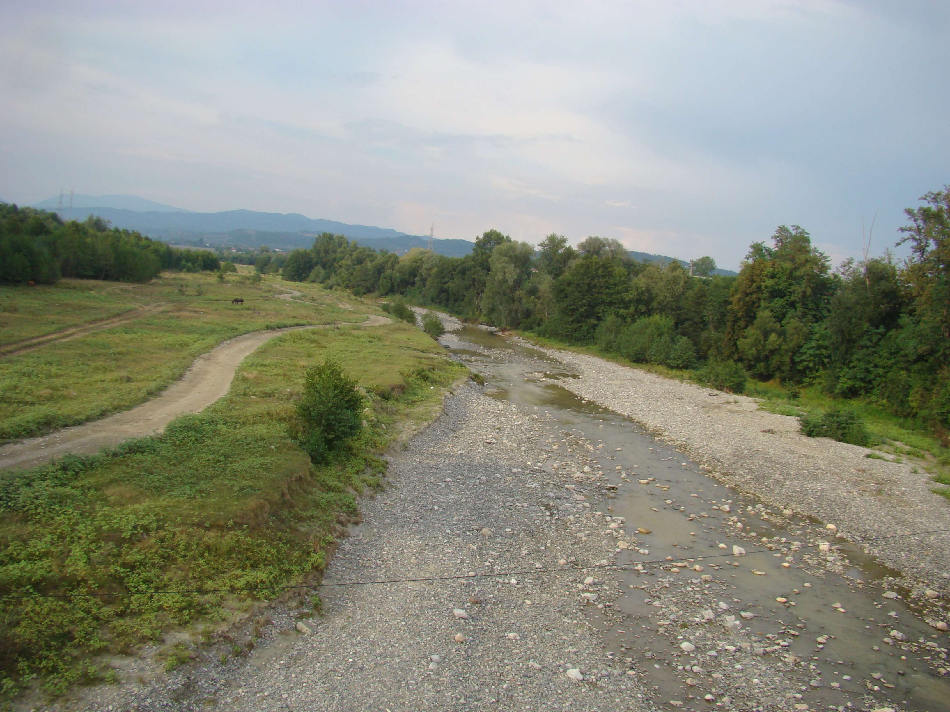 Valea Danului, Argeș county, Romania